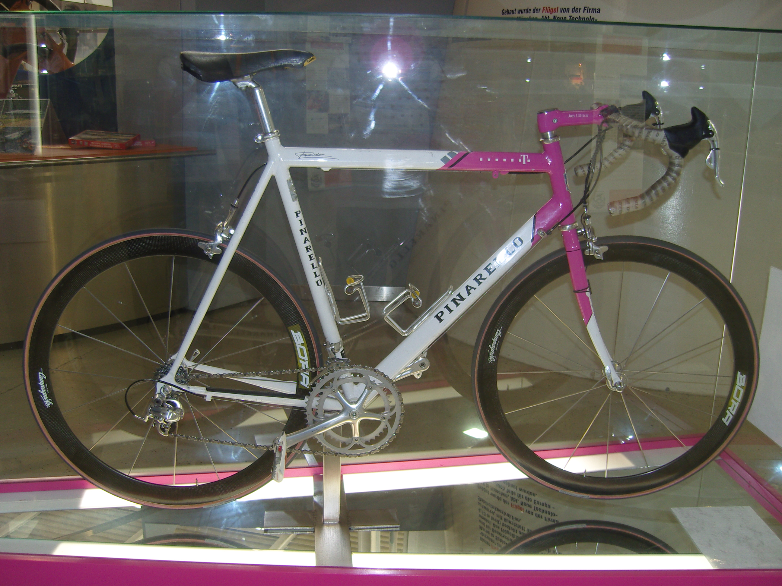 Jan Ullrich's 1997 Tour de France winning bike, Sinsheim, Germany